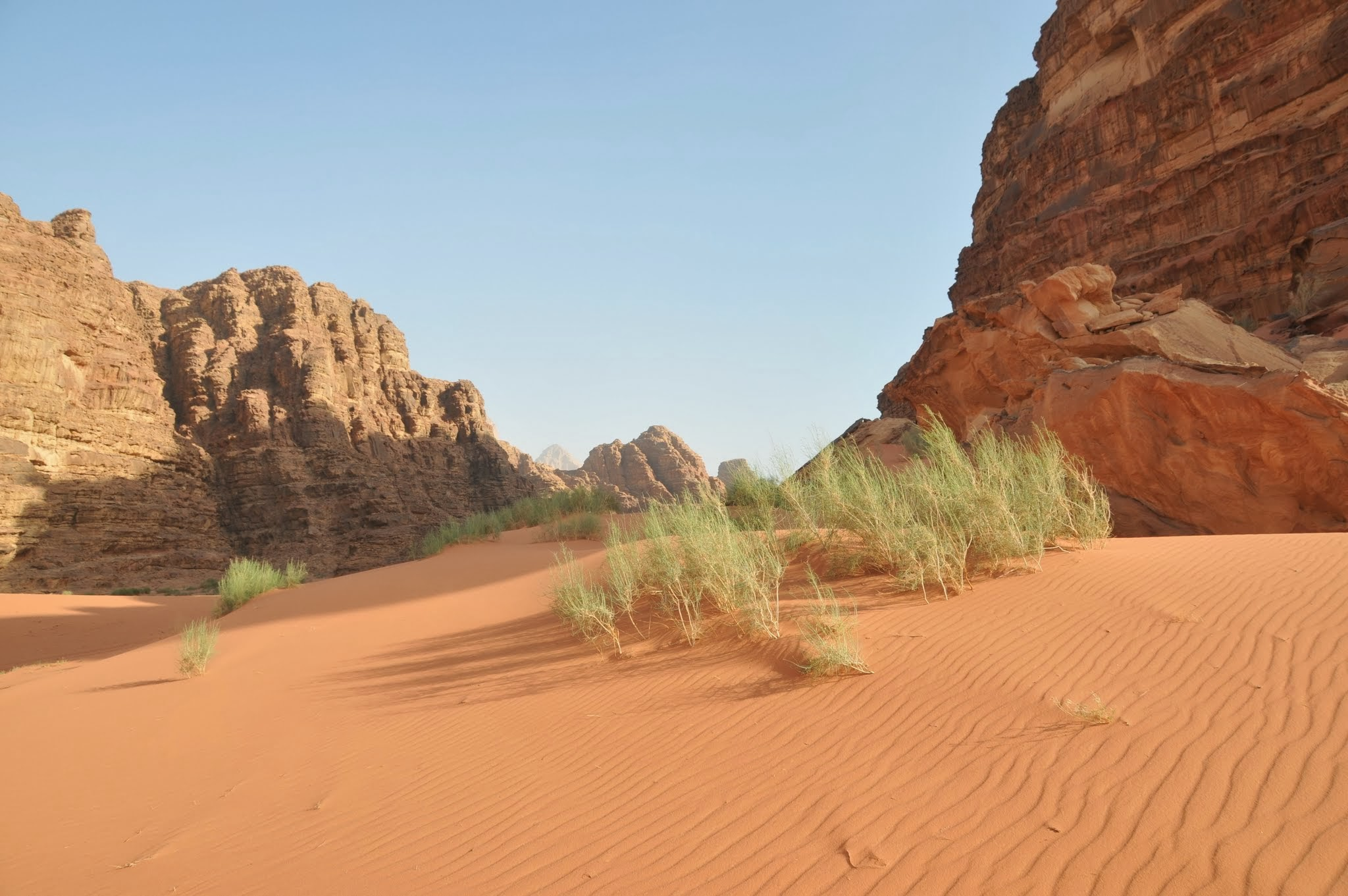 Magnificent Landscapes near the Seven Pillars of Wisdom, Wadi Rum, Jordan